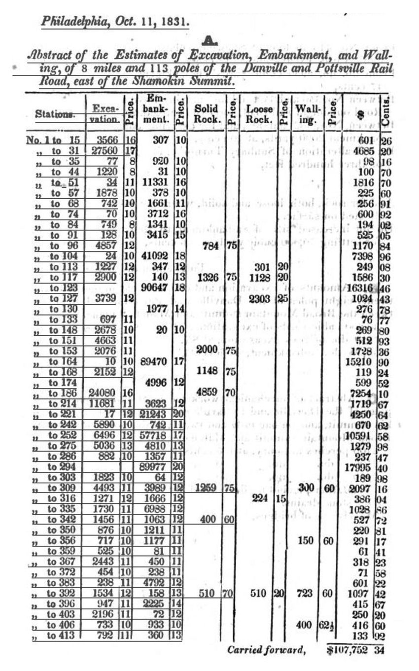 Survey for the Danville and Pottsville Rail Road Company, 1831